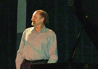 György Szabados at Fonò, Sept.2005